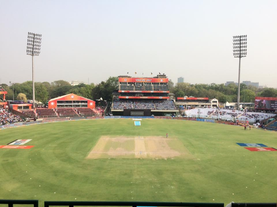 Feroz Shah Kotla Ground during an IPL 2017 match.